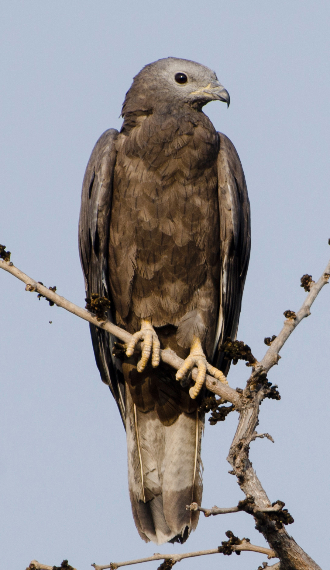 Oriental Honey-buzzard Pernis ptilorhyncus , clicked at Nagpur, Maharashtra, India